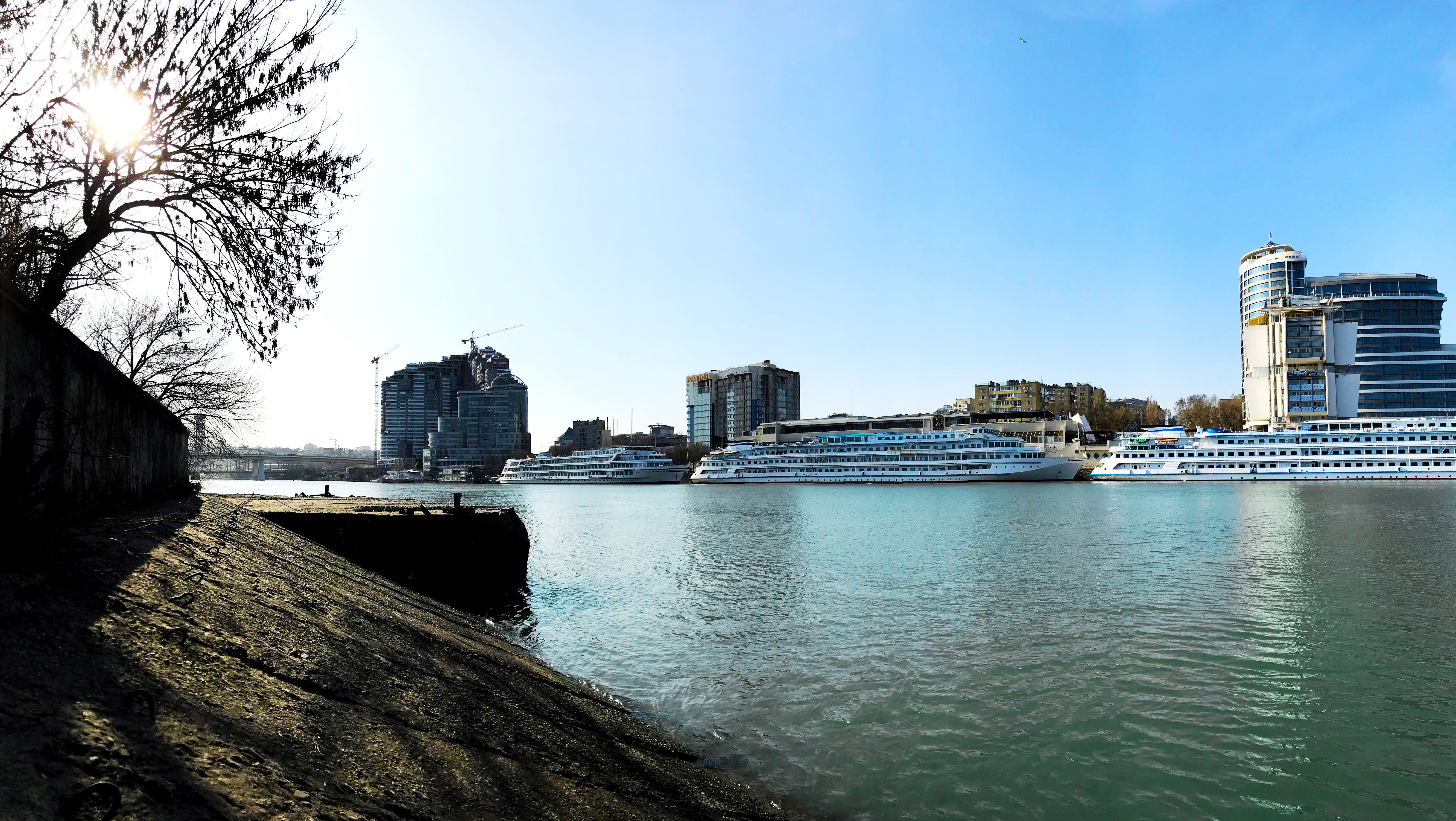 The remains of pillars and coastal fortifications of the bridge of Marshal Antonescu.